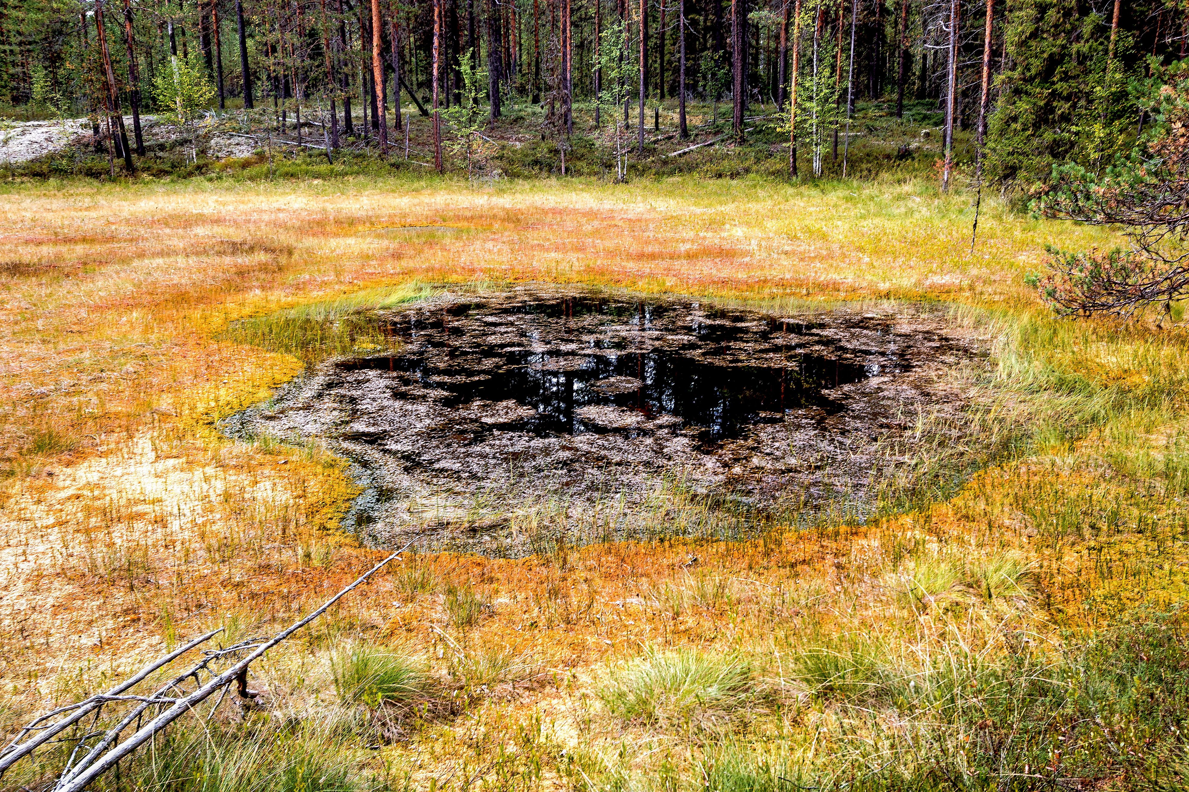 Formation of bogs (oligotrophic) In the climatic zone (taiga, forest-tundra) of the Arkhangelsk region.